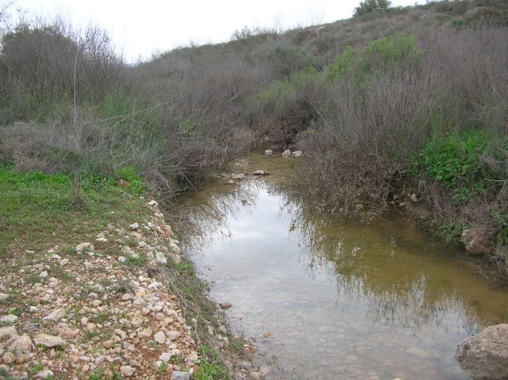 Stream Anabe in Modiin